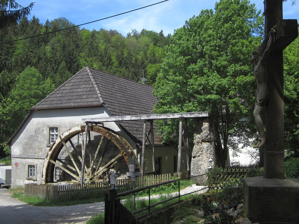 Heroldsmühle in Heiligenstadt, Franconian Jura